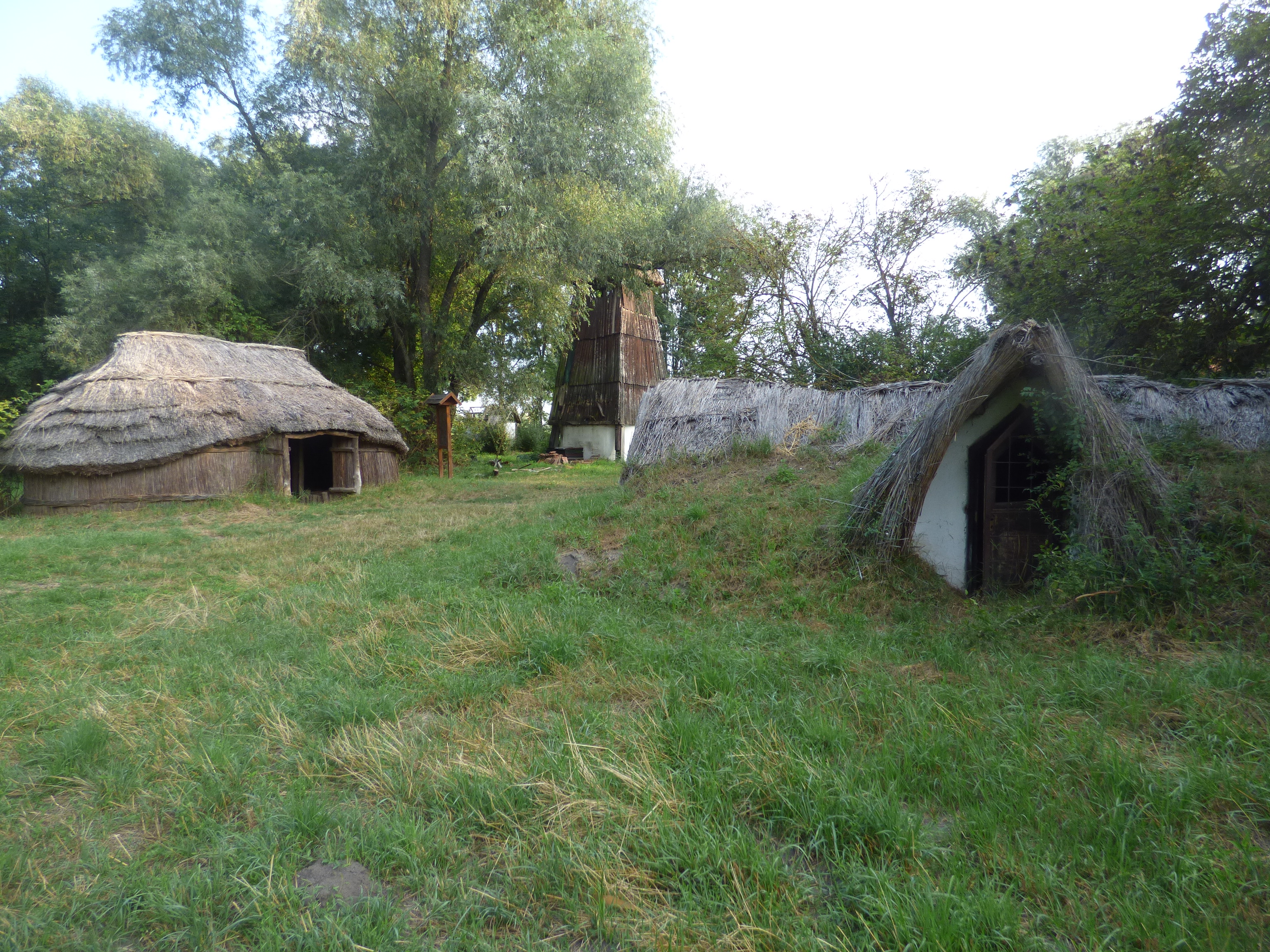 Az Ócsai Madárvárta 2017 nyarán